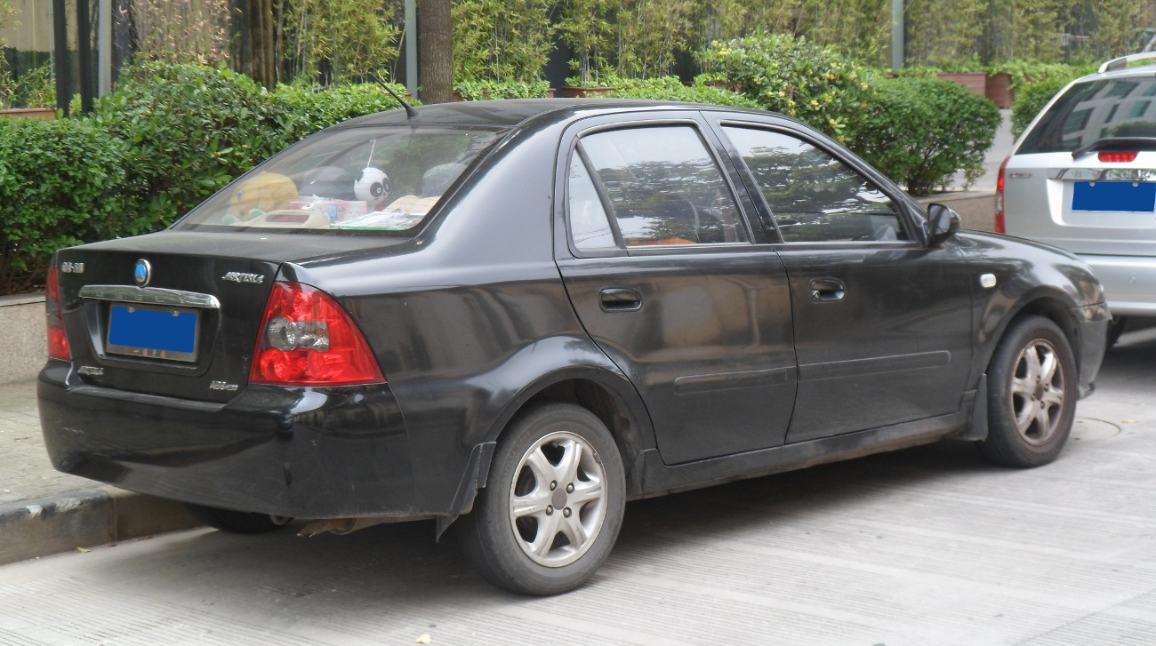 Geely Ziyoujian photographed in Shanghai, China.